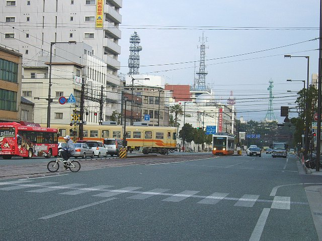 Crossing of Iyo Railway Takahama Line (travelling horizontally) and Otemachi Line at Otemachi Station